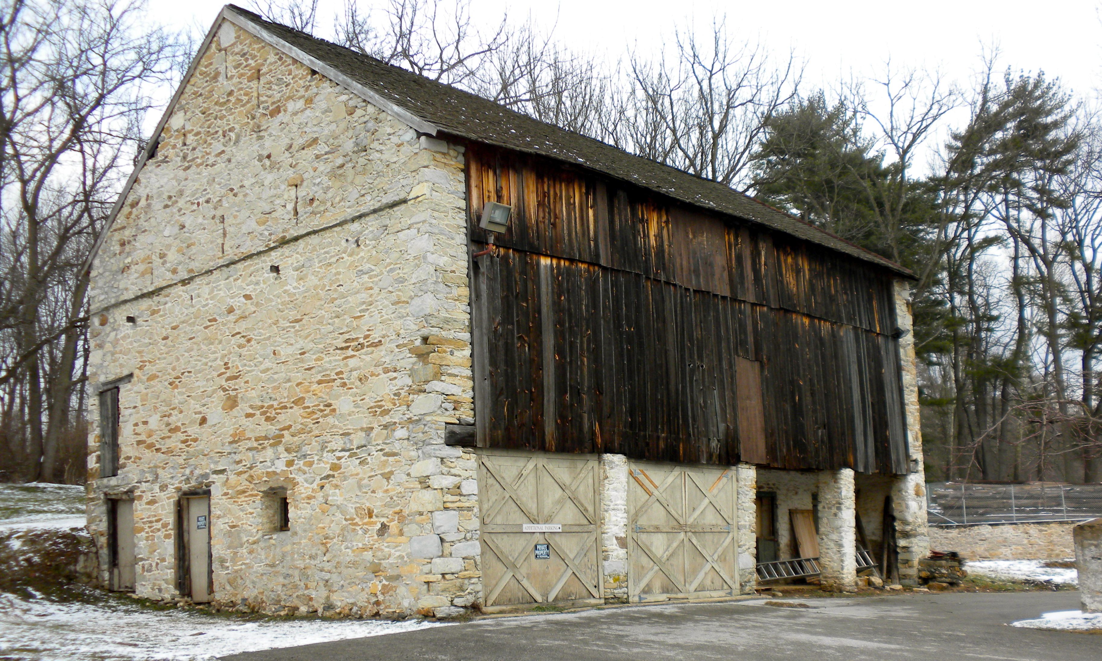 "Federal Barn" part of Cressbrook Farm on Adams Road, Wayne, PA near Valley Forge. Used during Valley Forge encampment. On NRHP